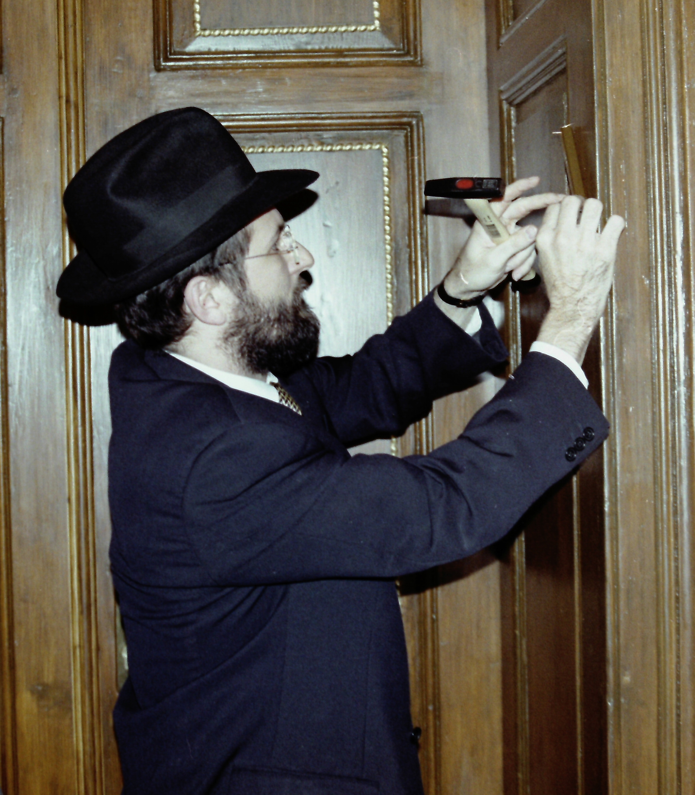 Rabbi Sacha Pecaric nails the mezuzah to the door frame of the renovated prayer hall in Bielsko-Biała, Poland